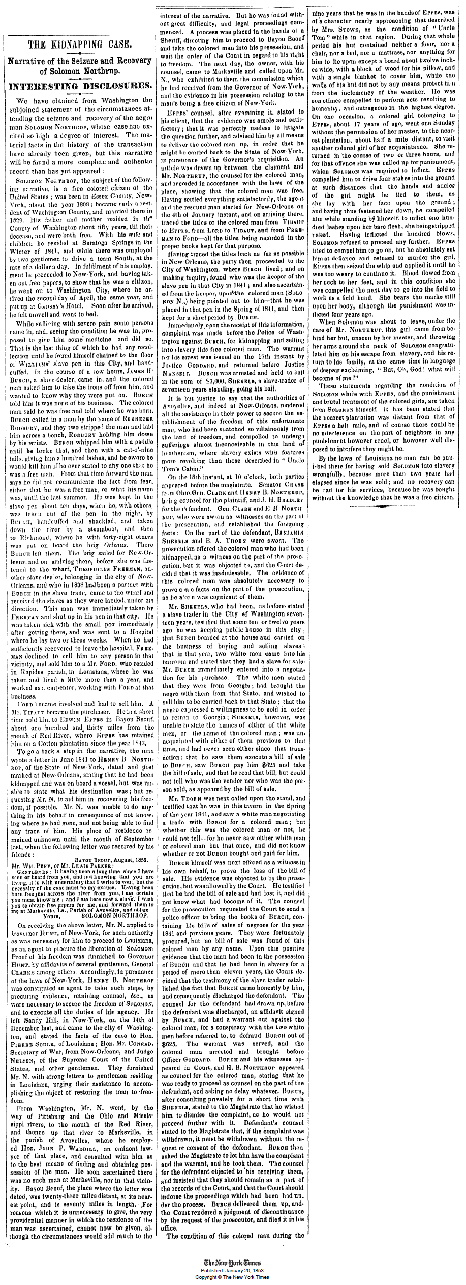 Solomon Northup in the New York Times on January 20, 1853